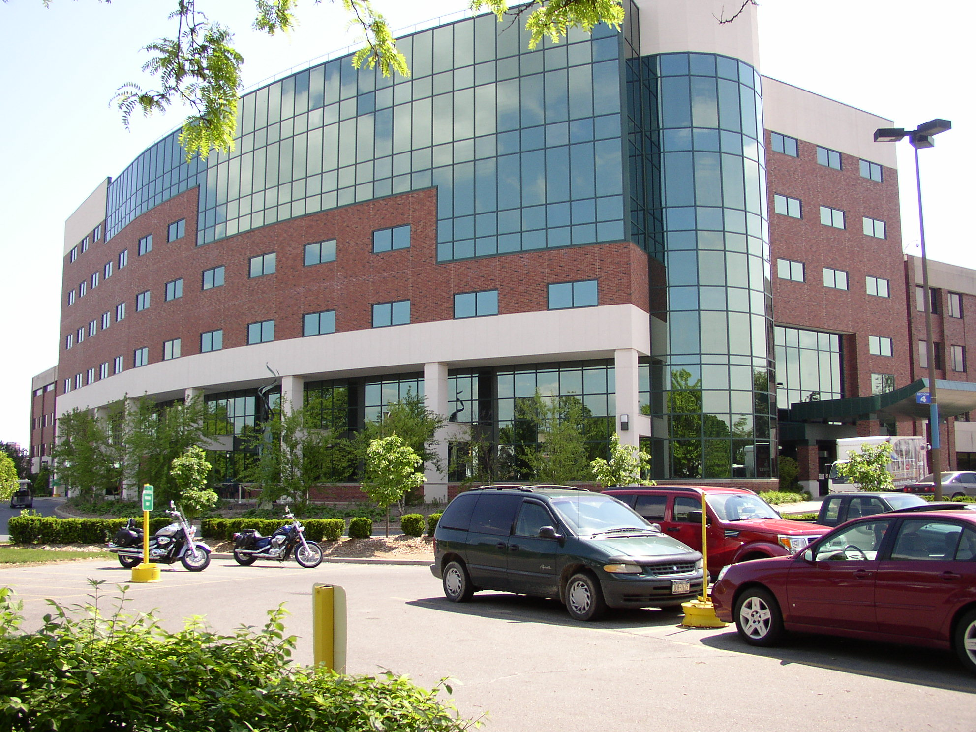 View of the Northwest Tower of Glens Falls Hospital in Glens Falls, New York as seen facing southeast from the sidewalk west of hospital's main driveway.